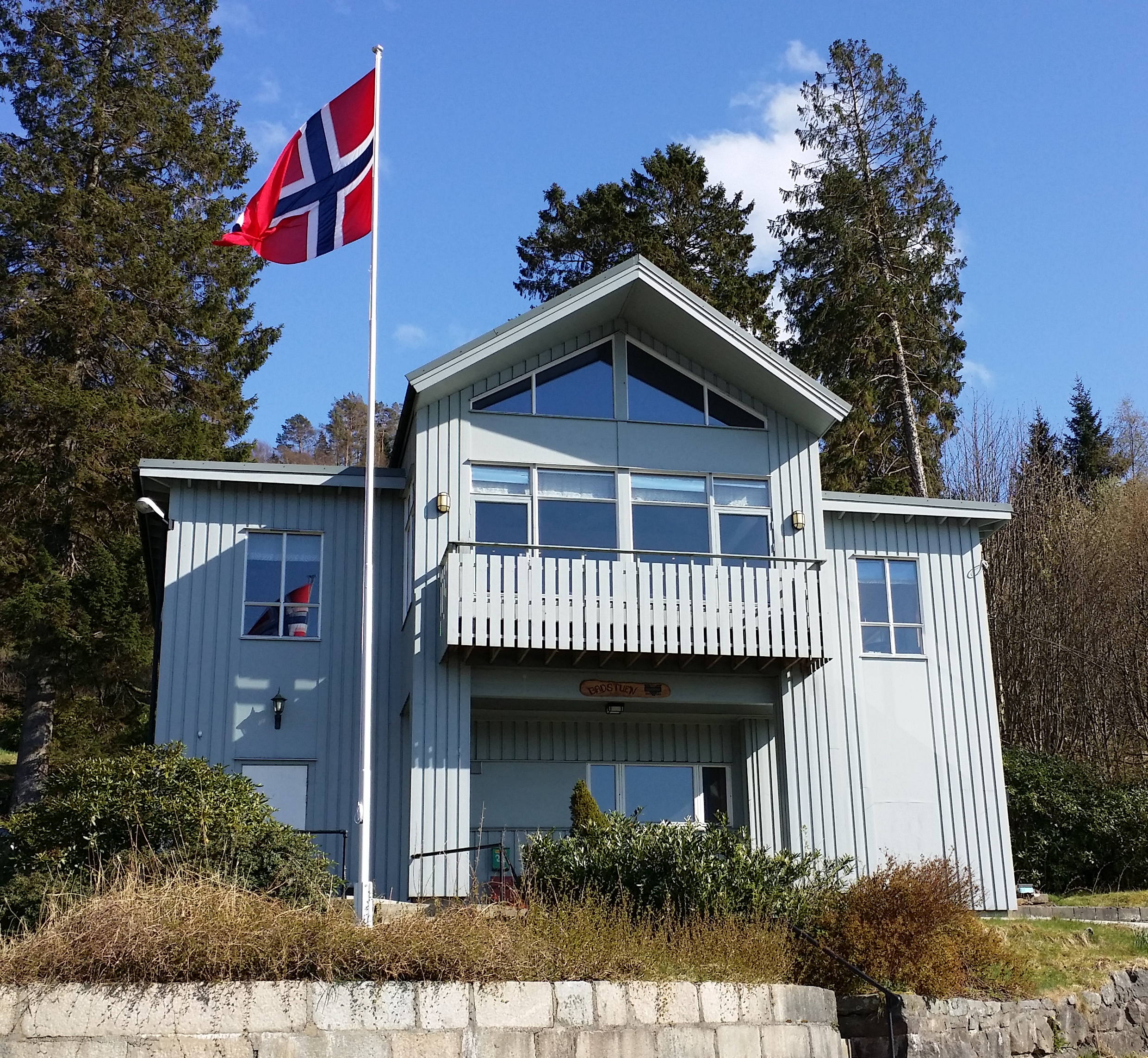 Badstuen, the club house of IF Varegg, a football and orientering club in Bergen, Norway